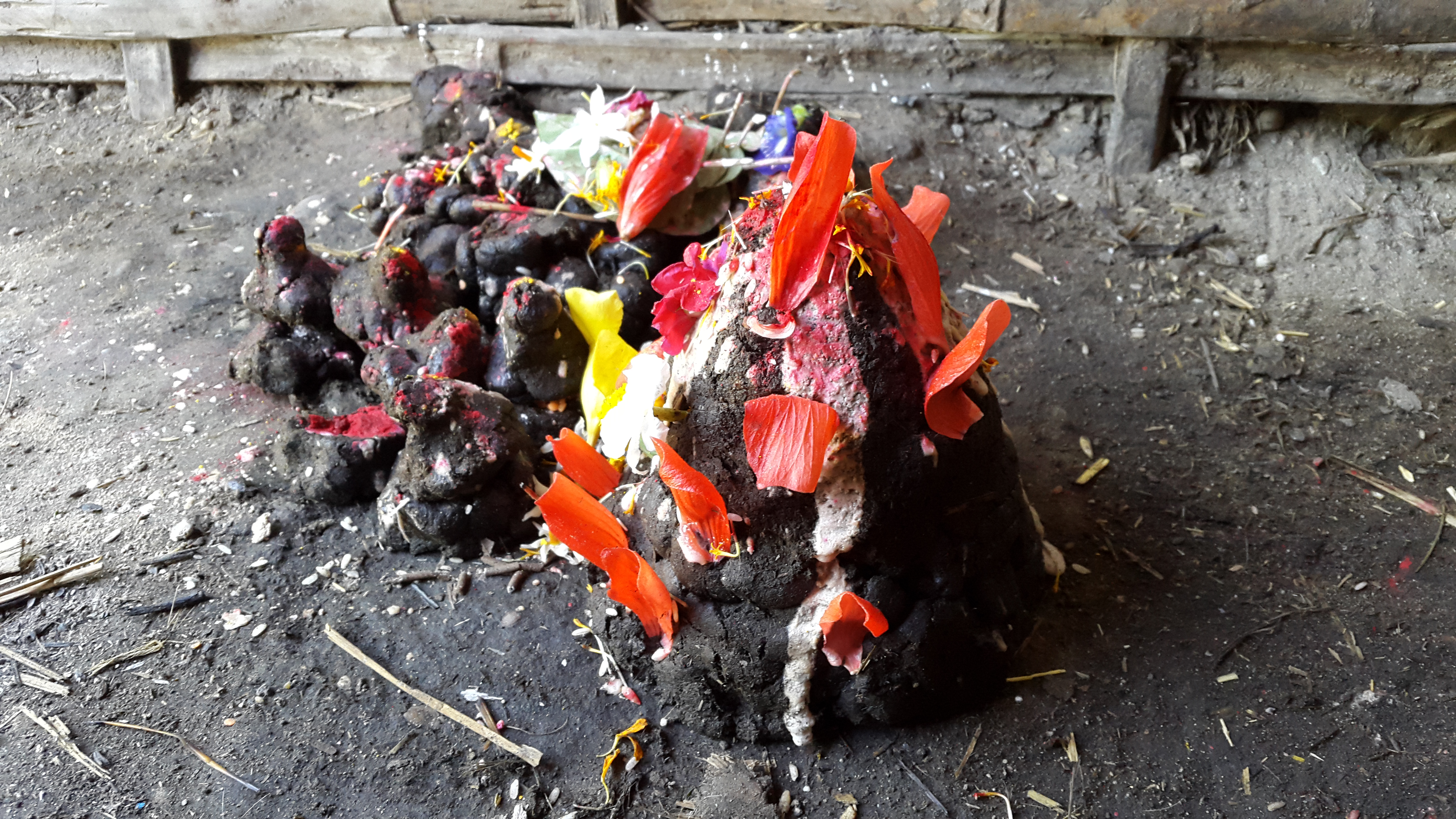 On the fourth day of Tihar, there are three different known pujas, depending on the people's cultural background. It is observed as Goru Tihar or Goru Puja (worship of the oxen). People who follow Vaishnavism perform Govardhan Puja, which is worship towards goverdhan mountain. Cow dung is taken as representative of the mountain and is worshiped. This day is seen as the beginning of the new Nepal Sambat calendar year. The 2016 date is October 31.